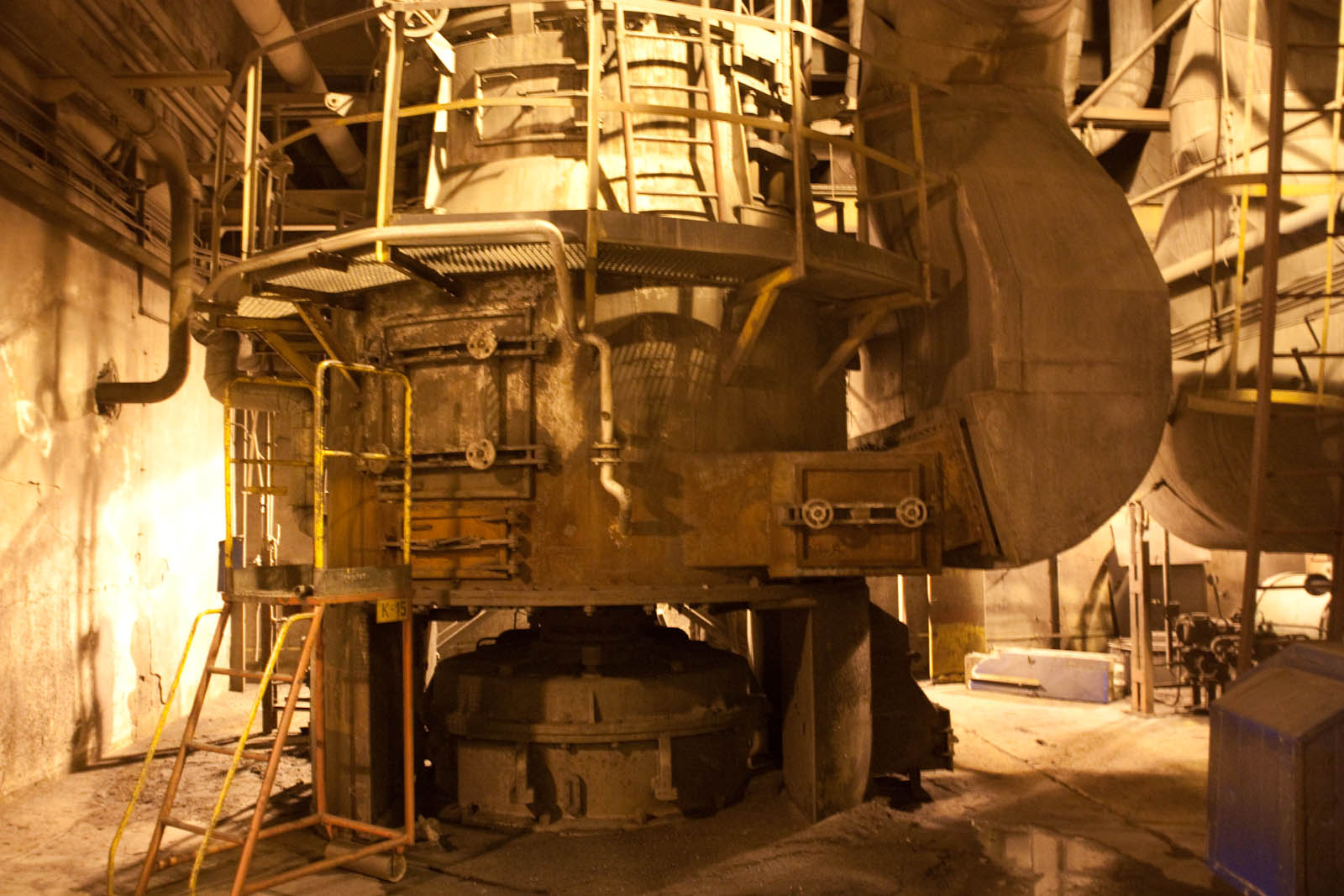 Coal mill of hard coal power plant Siekierki in Warsaw, Poland.